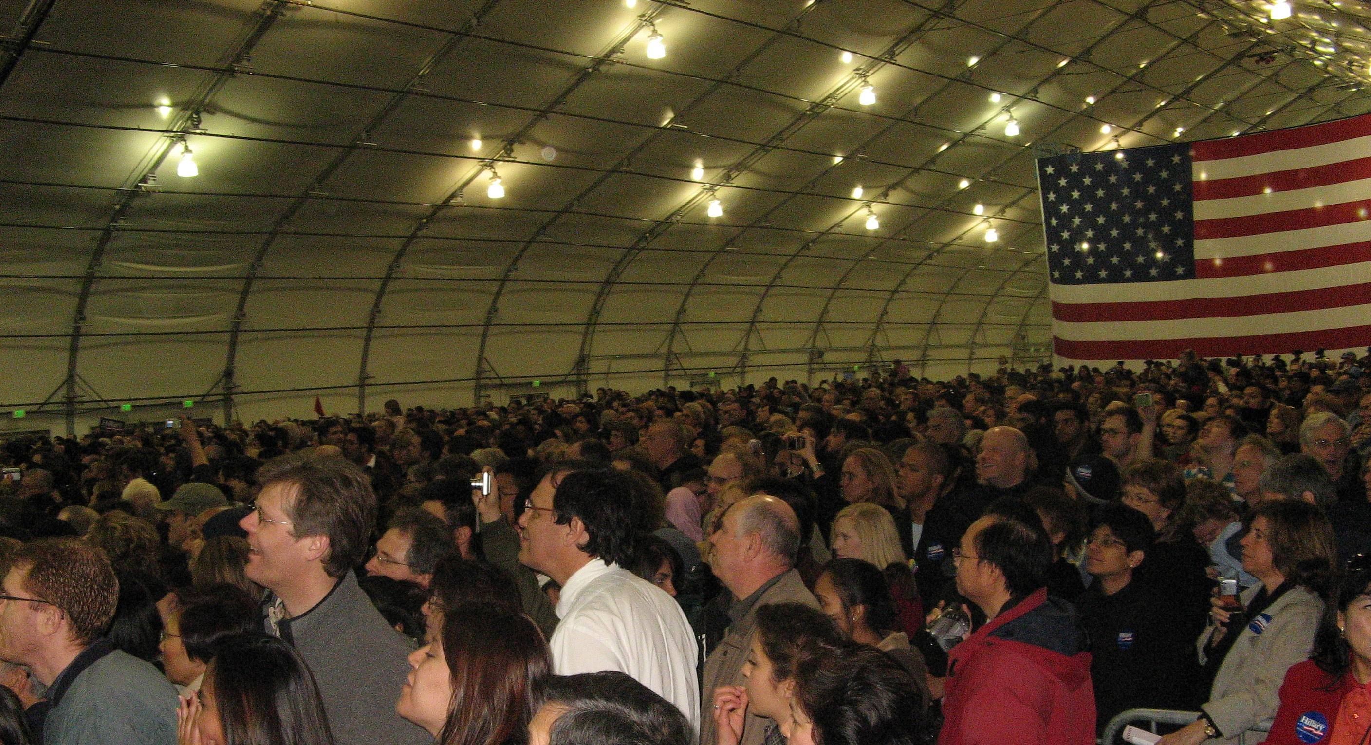 Hillary Clinton Campaign Supporters